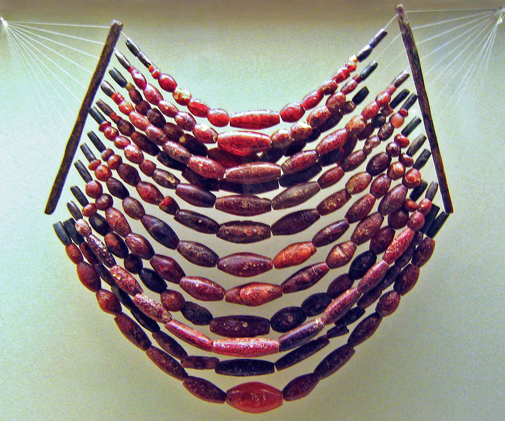 Hallstatt Amber Choker necklace. Hallstatt Amber Choker necklace.